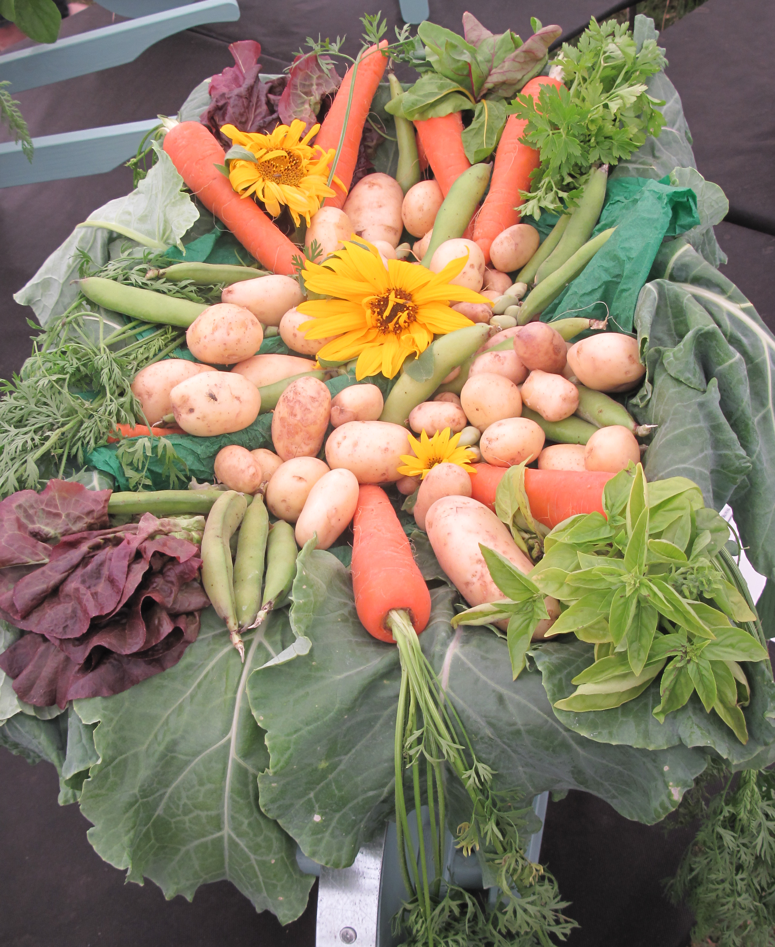 West Show, Jersey, 10-11 July 2010